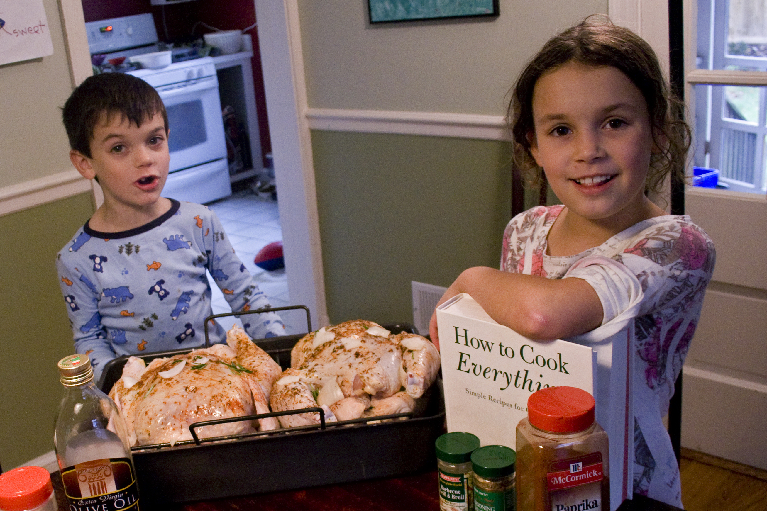 Homeschooled children in the kitchen